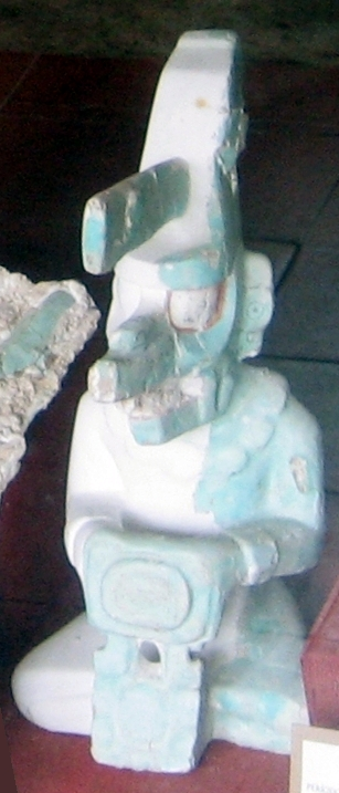 Effigy of K'awiil (God K) in the site museum at Tikal, Guatemala.